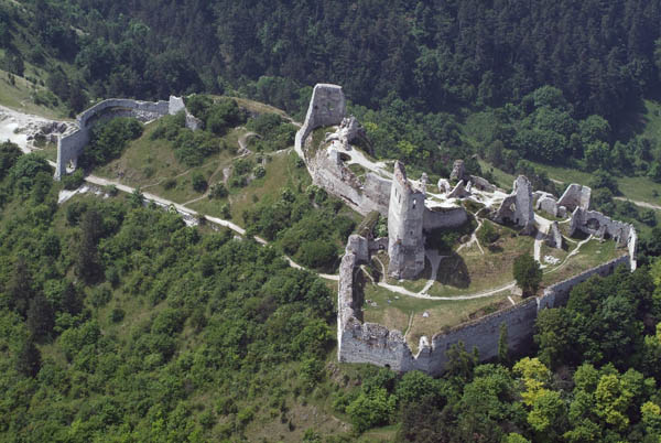 Čachtice Castle, Slovakia, castle, aerial photography